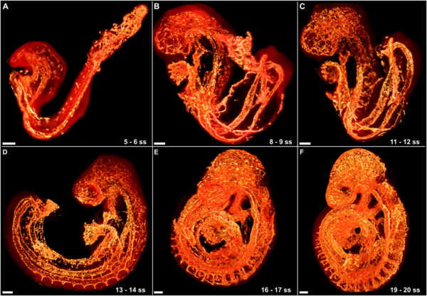 (A) In the 5 somite embryo the vasculature, volume rendered with a hot metal colourmap, is confined mostly to a completed DA, a developing heart, the allantois, the extraembryonic circulation, and clusters of PECAM-1 expressing cells dispersed throughout the cephalic mesenchyme. The autofluorescence is volume rendered with a transparent red colour map for overall positioning. (B) The 8 somite embryo has a rudimentary vascular plexus permeating the cephalic mesenchyme, the UV is elongating and the heart has initiated looping. (C) Occipital intersomitic vessels have begun to develop in the 11 somite embryo. (D) After turning, the cervical intersomitic vessels emerge in the 14 somite embryo. (E) The intersomitic vessels have begun to branch and connect together in the 16 somite embryo. (F) The vasculature of the 19 somite mouse embryo is a complicated but stereotypic structure. All scale bars represent 100 microns.